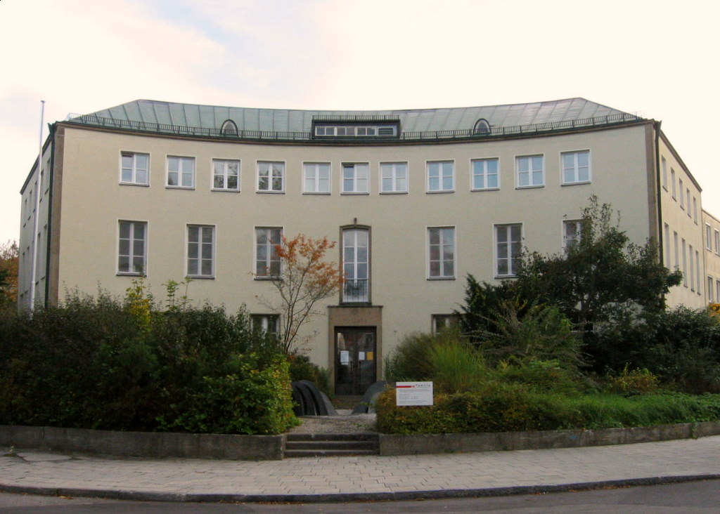 Post office at Fürstenfeldbruck, Bavaria, Bahnhofstraße 2; built in 1930 after a design by Georg Werner and Lars Landschreiber; protected monument)